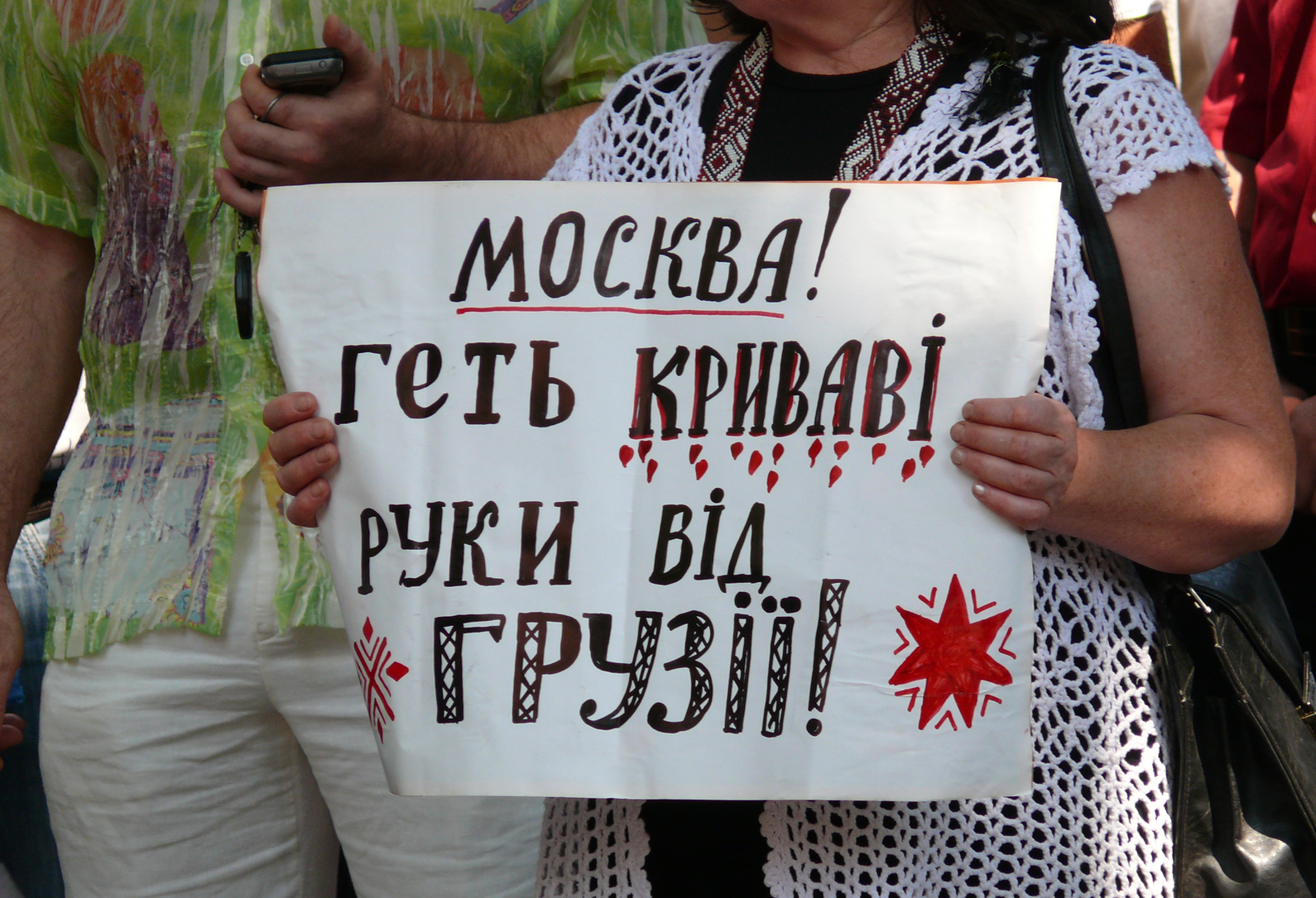 Picketing of General consulate of Russia in Kharkov, Ukraine